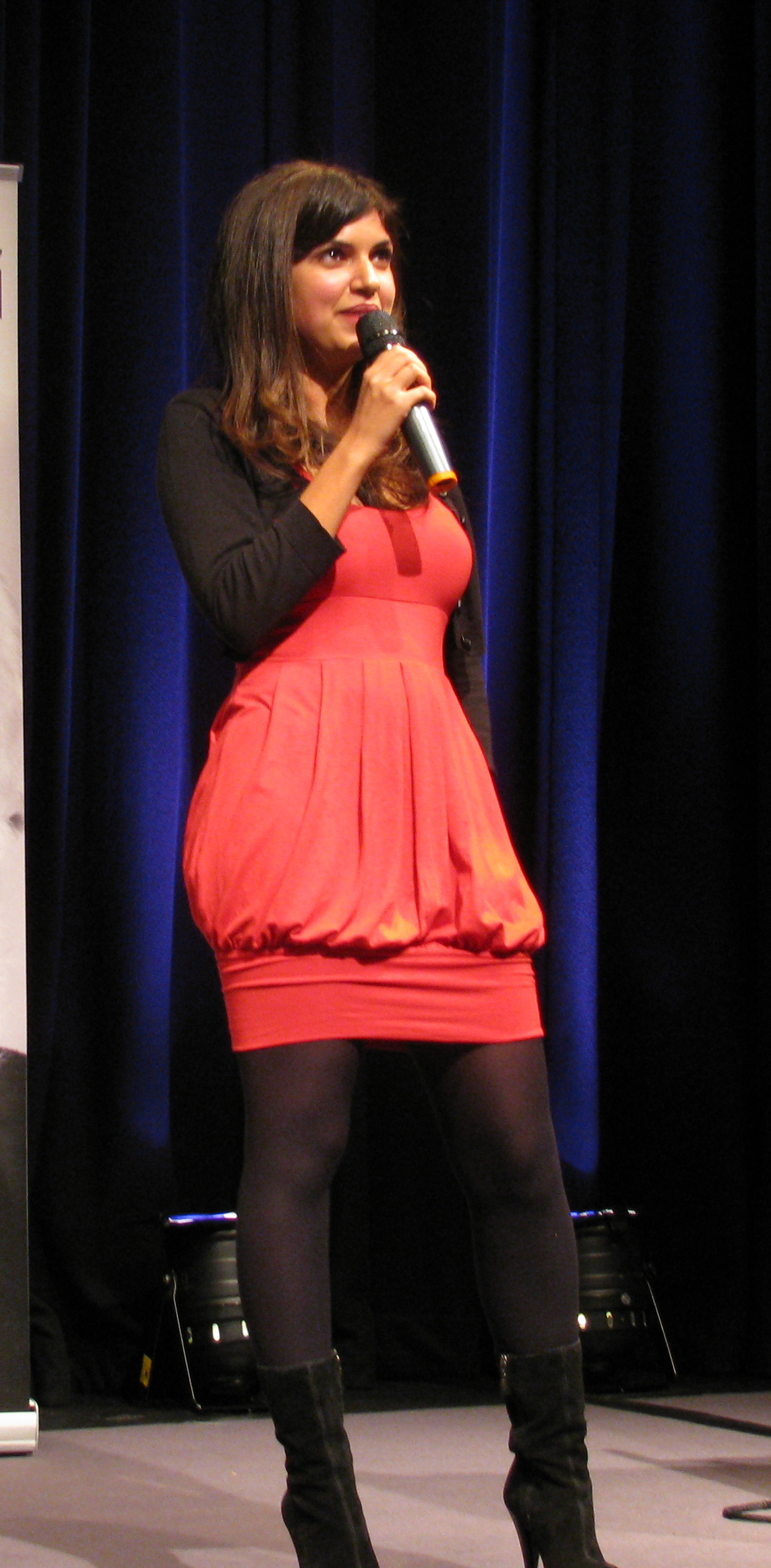 Ariane Sherine 2.jpg